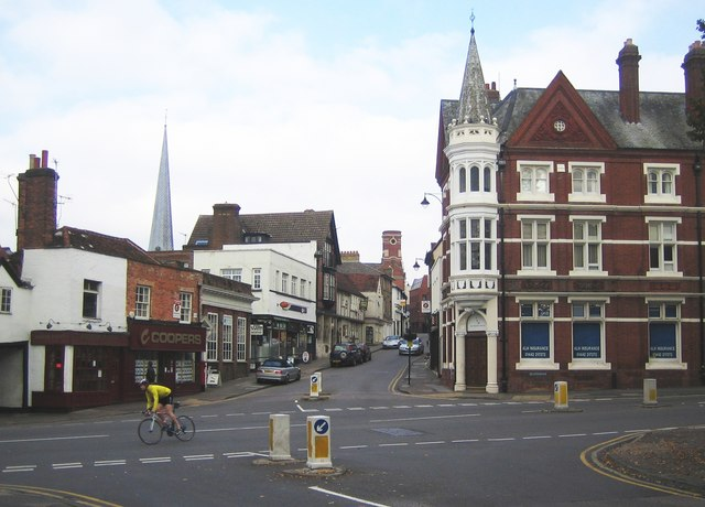 Hemel Hempstead: High Street This is the southern end of the High Street viewed looking across Queensway from Alexandra Road, with the landmarks, from left to right, of the steeple of St Mary's Church, the tower of the old Town Hall, and the Victorian Gothic steeple of the corner building currently used by ALH Insurance. The 1940s Ordnance Survey map shows this road junction to be the most important in Hemel with the A4146 road heading south to the left and the A4147 road heading east leaving the junction to go up Alexandra Road towards Hemel Hempstead Midland railway station.